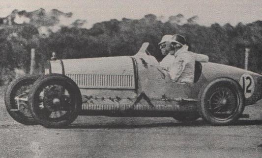 The Bugatti Type 37 of Harold Drake-Richmond competing in the 1931 Australian Grand Prix